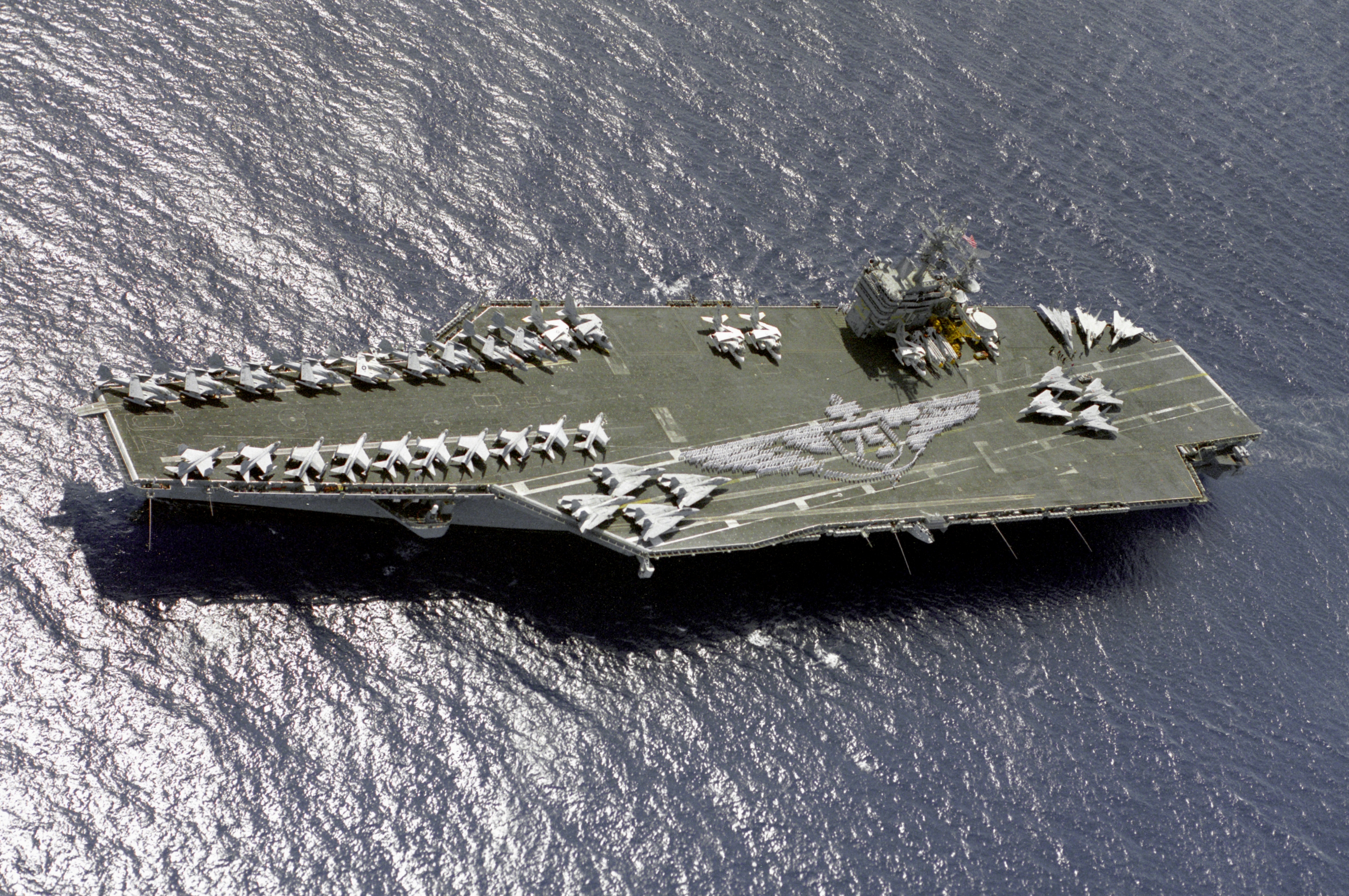 U.S. Navy members of the ship's company and air wing form a set of aviator wings on the flight deck of the nuclear-powered aircraft carrier USS Carl Vinson (CVN-70) to commemorate the 75th anniversary of U.S. Naval aviation in 1986.